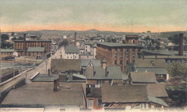 The Madison mills and a bird's-eye view of Anson, ME; from a c. 1910 postcard.